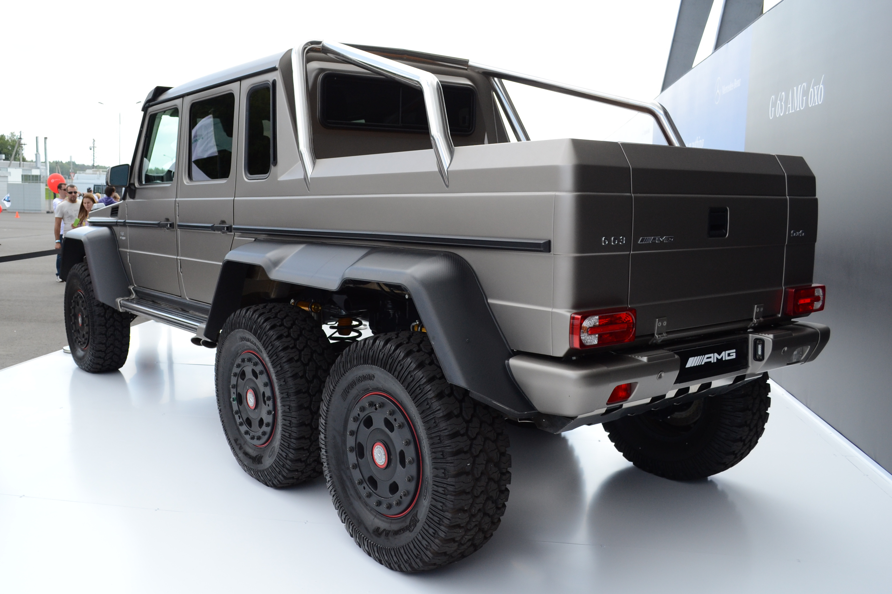 Mercedes-Benz G 63 AMG 6x6 at Moscow Raceway